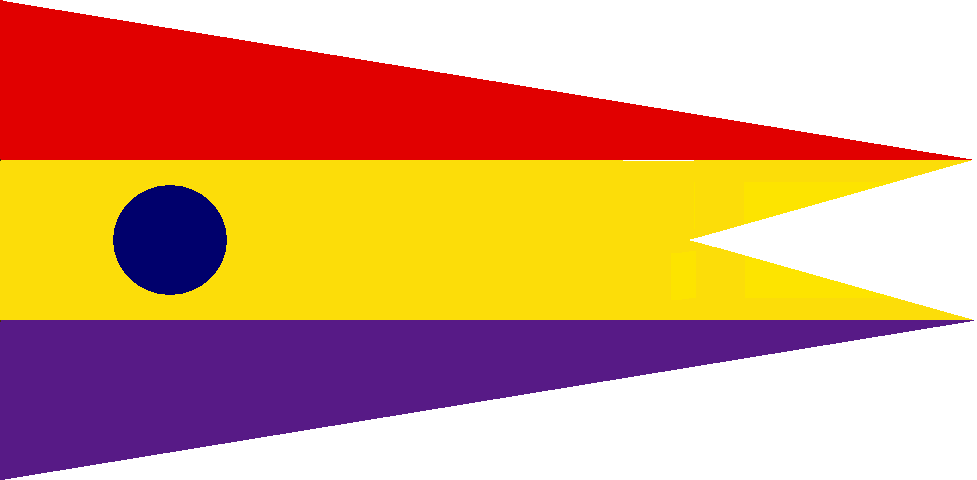 Captain at Sea Pennant (in command of a squadron). Spanish Republican Navy (1931-1939)